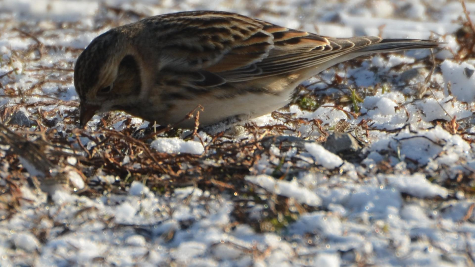 Riverlands Migratory Bird Sanctuary in Alton MO on 12/29/12